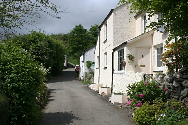 Tutwell Houses Tutwell is a hamlet situated on the steep side of the Tamar Valley.